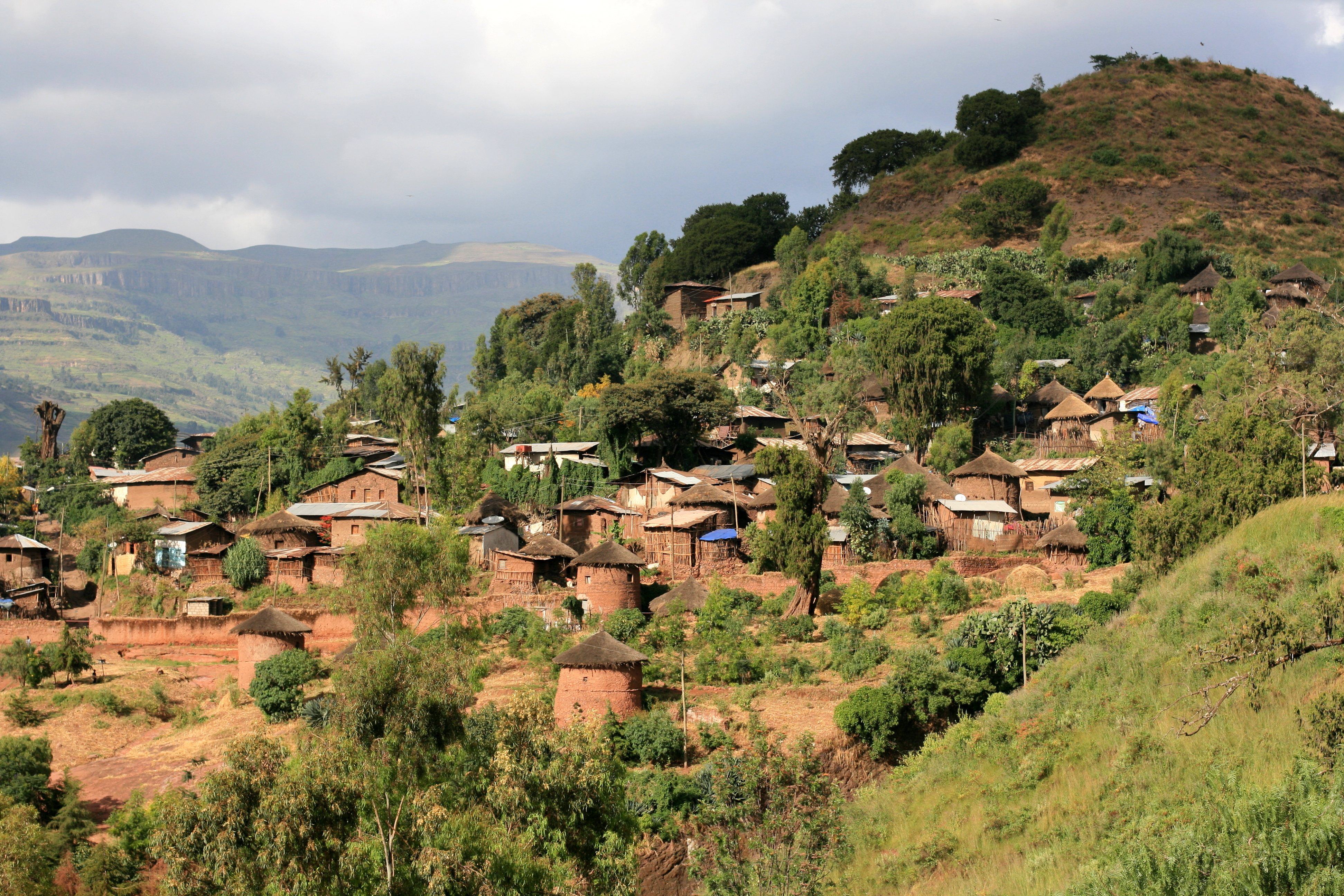 Lalibela is in northern Ethiopia.